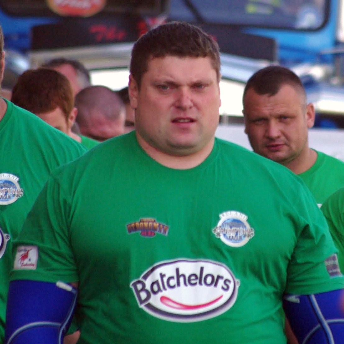 Zydrunas Savickas